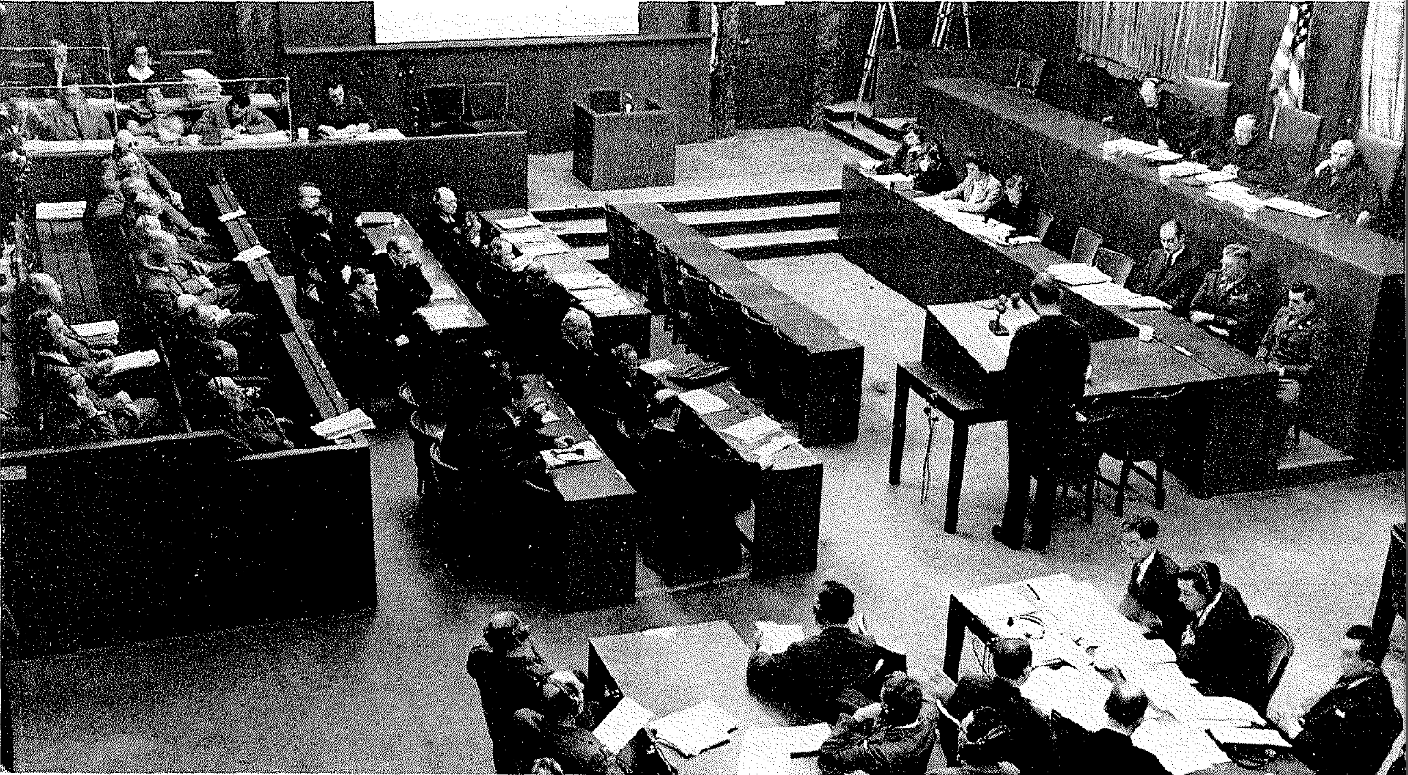 see title